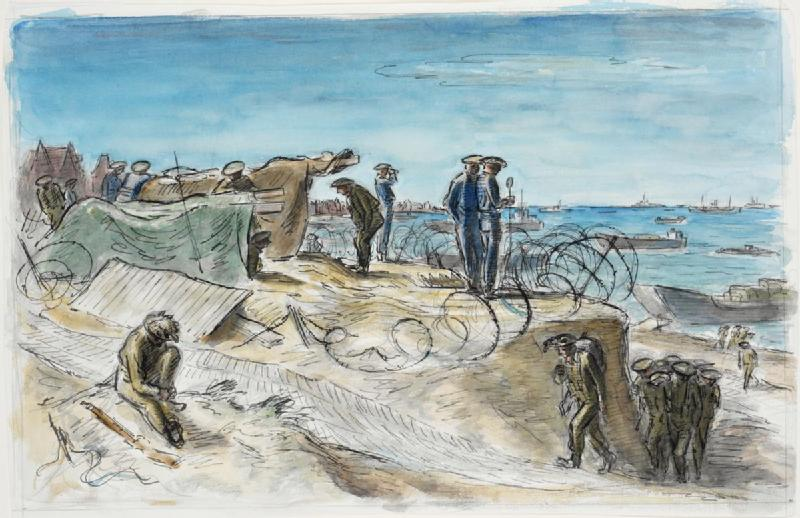 Normandy June 1944- Naval Control Post on the Beaches image: An embankment above a beach covered with barbed wire and guns hung with tarpaulins. The sea is filled with ships and boats of various kinds. A group of soldiers is walking up off the beach, while two men are looking out to sea. One is holding a microphone. A little further along another soldier is also looking out to sea with binoculars.